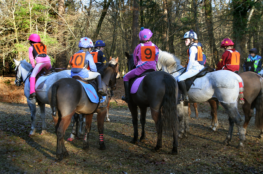 The point-to-point race in the New Forest, Hampshire.